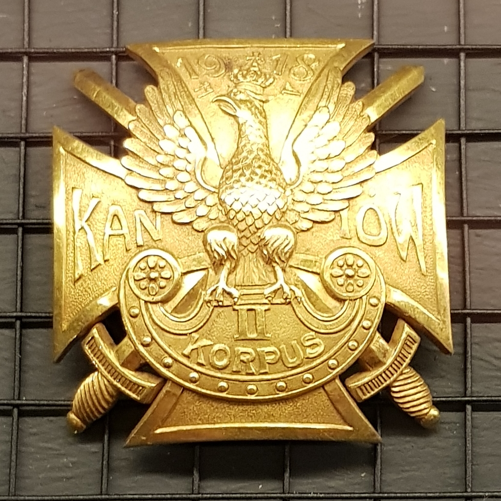 Kaniów Cross